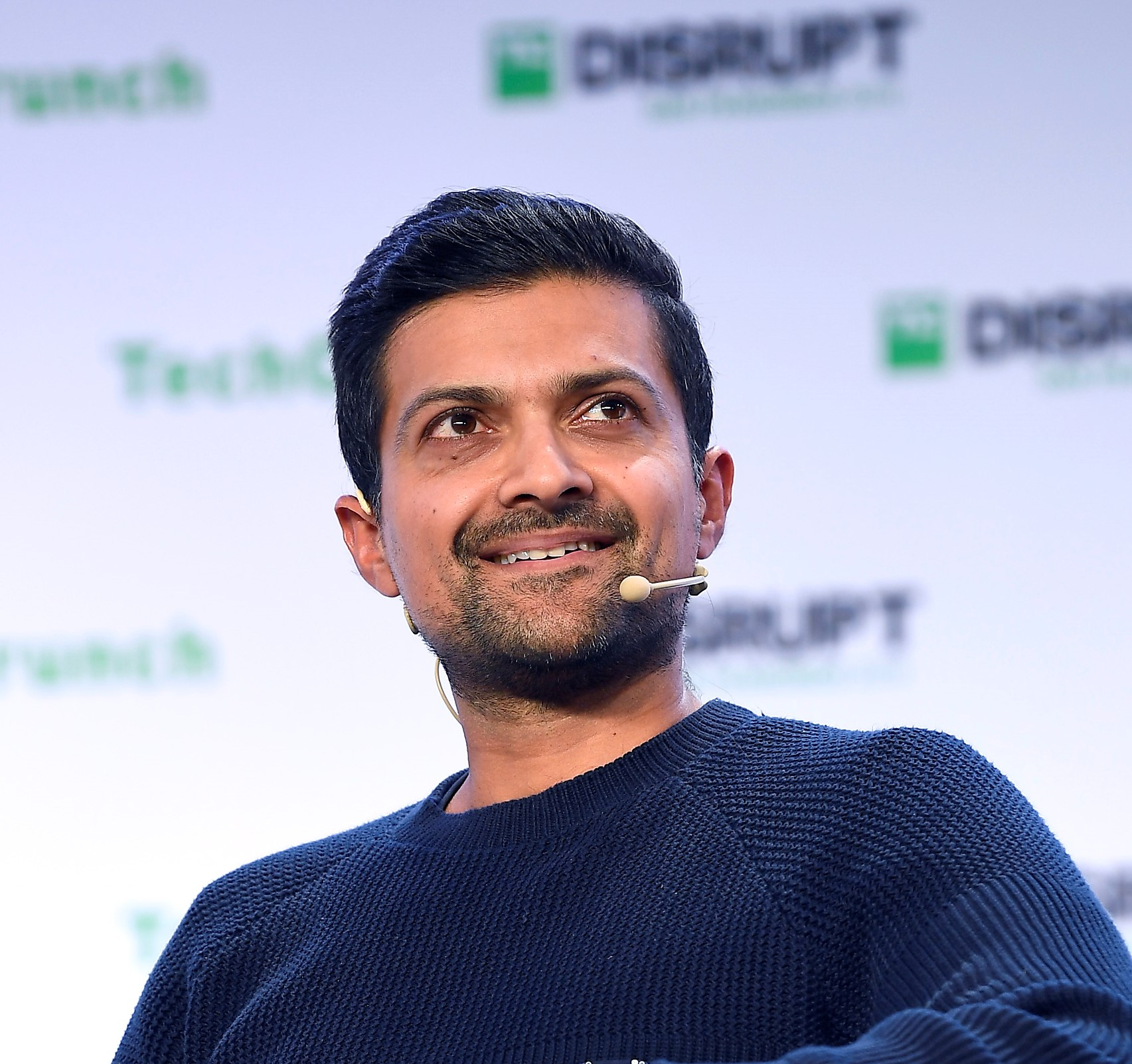 SAN FRANCISCO, CALIFORNIA - OCTOBER 04: Kleiner Perkins General Partner Mamoon Hamid speaks onstage during TechCrunch Disrupt San Francisco 2019 at Moscone Convention Center on October 04, 2019 in San Francisco, California. (Photo by Steve Jennings/Getty Images for TechCrunch)